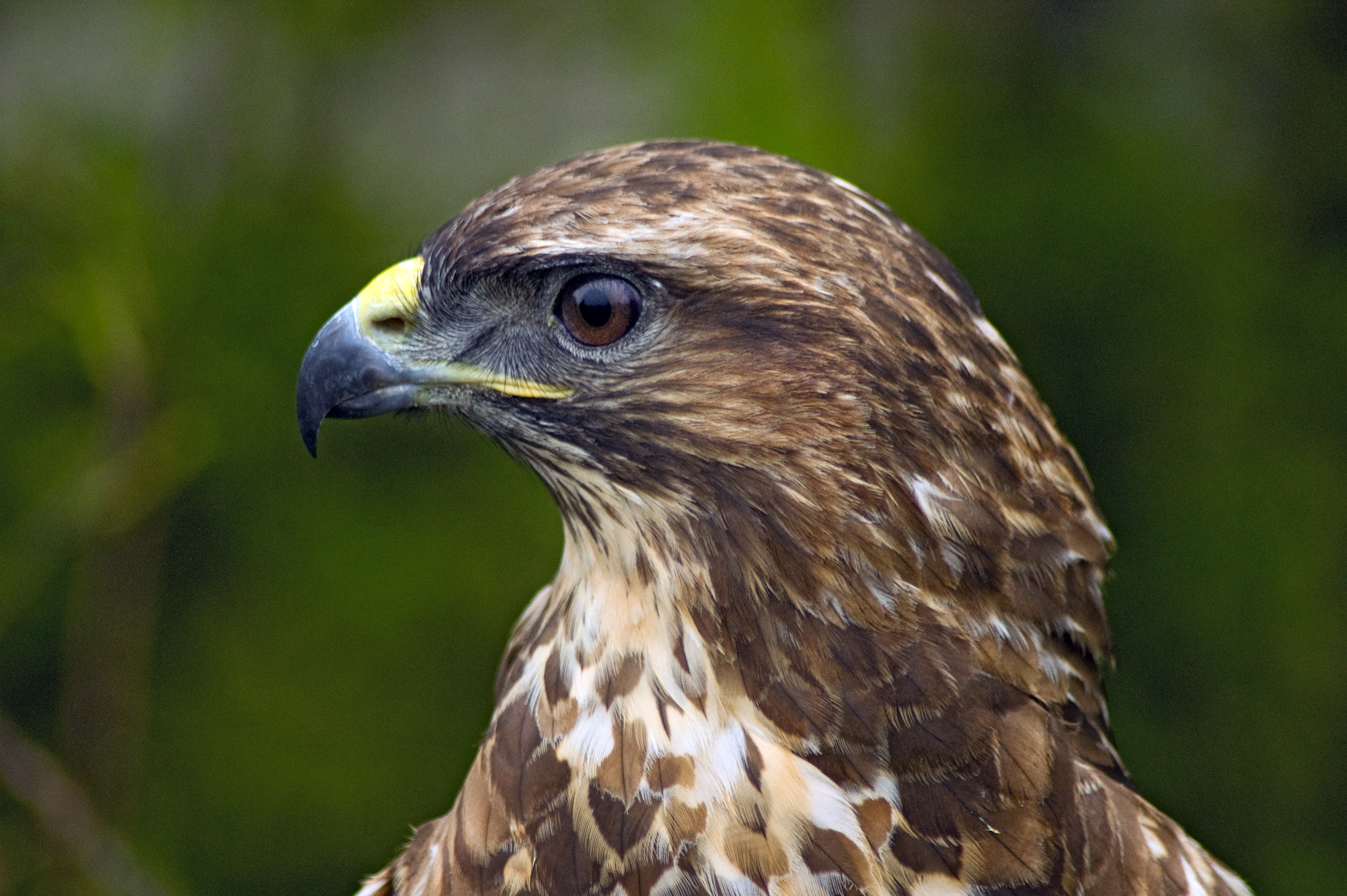 A Common Buzzard at Hamerton Zoo, Cambridgeshire, England. It head is turned to its right.